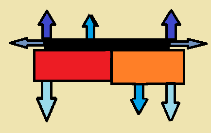 Adhesion Tapes Forces due to Mechanical Wear